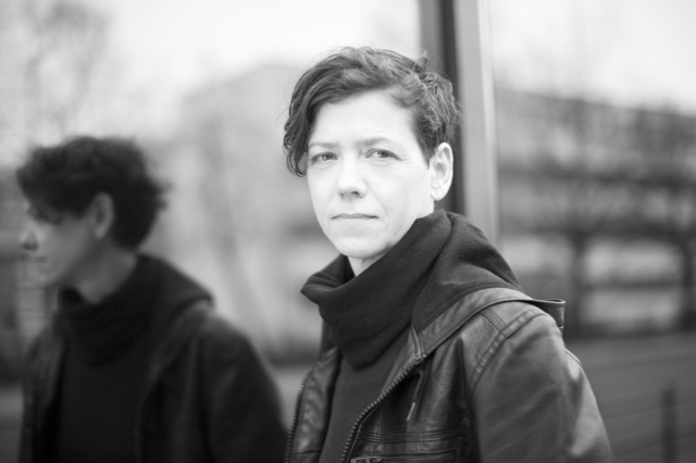 German filmmaker Beate Kunath, 2016, Photo: Sylvia Steinhäuser - small resolution (web)